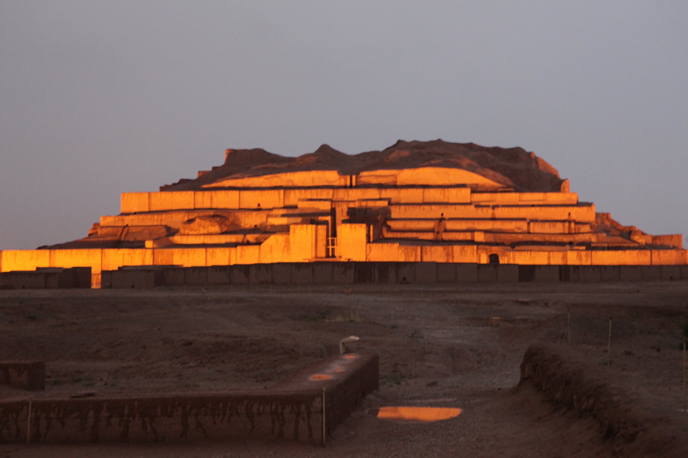 Choqa Zanbil, Ziggurat, Dur Untash, 13th century BC